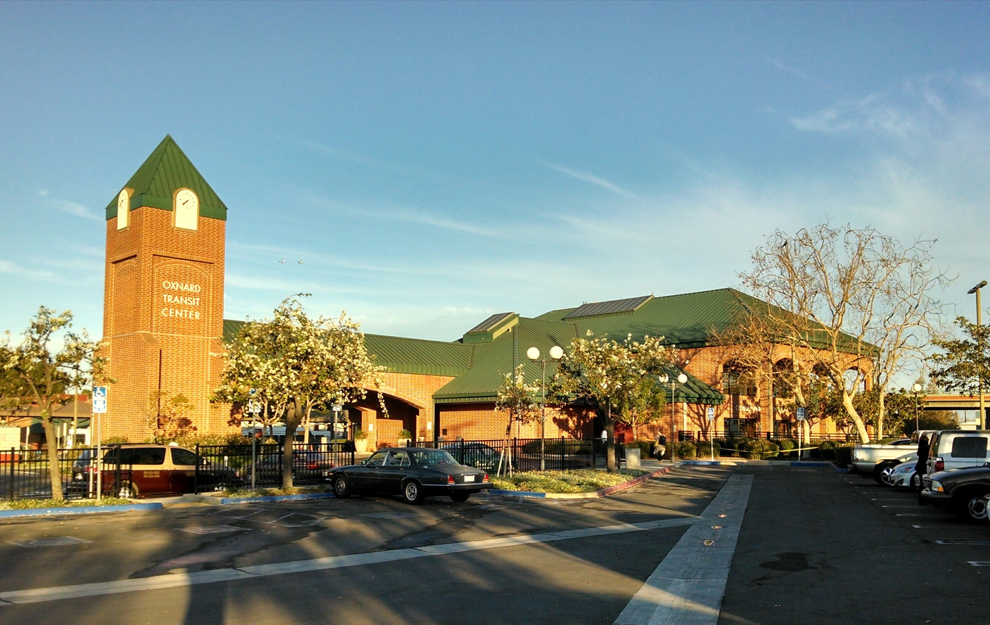 Morning view from south east of station